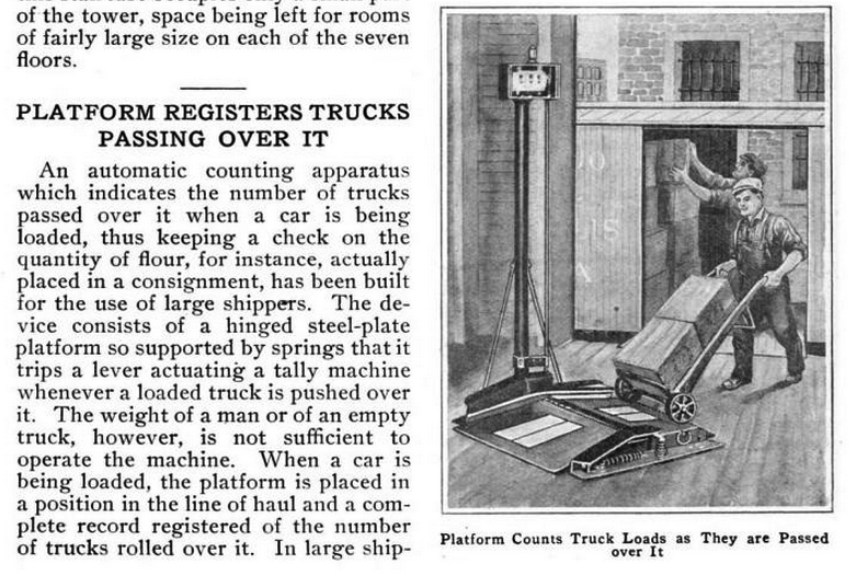 Coverage of a platform scale that counts each time a loaded truck (handtruck) passes over it during the loading of a car (railroad car).